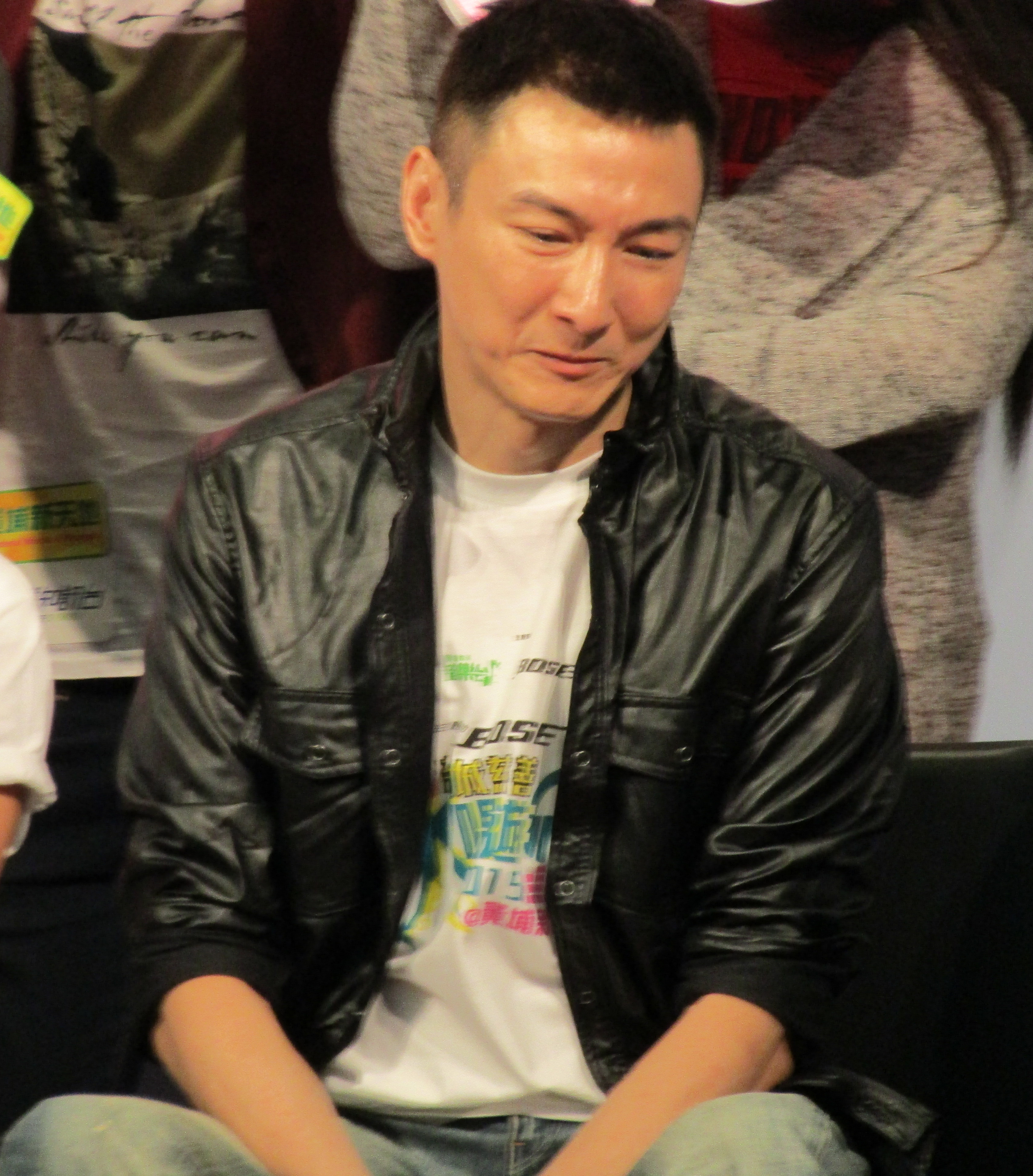 William Hu is singing at Wonderful Worlds of Whampoa, Hung Hom